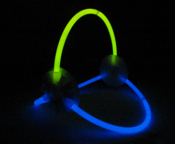 A party gag, built with Lightsticks